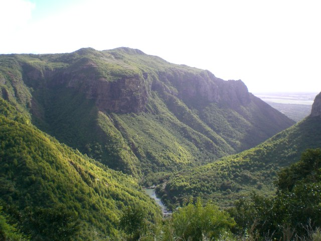 tallest waterfalls in mauritius